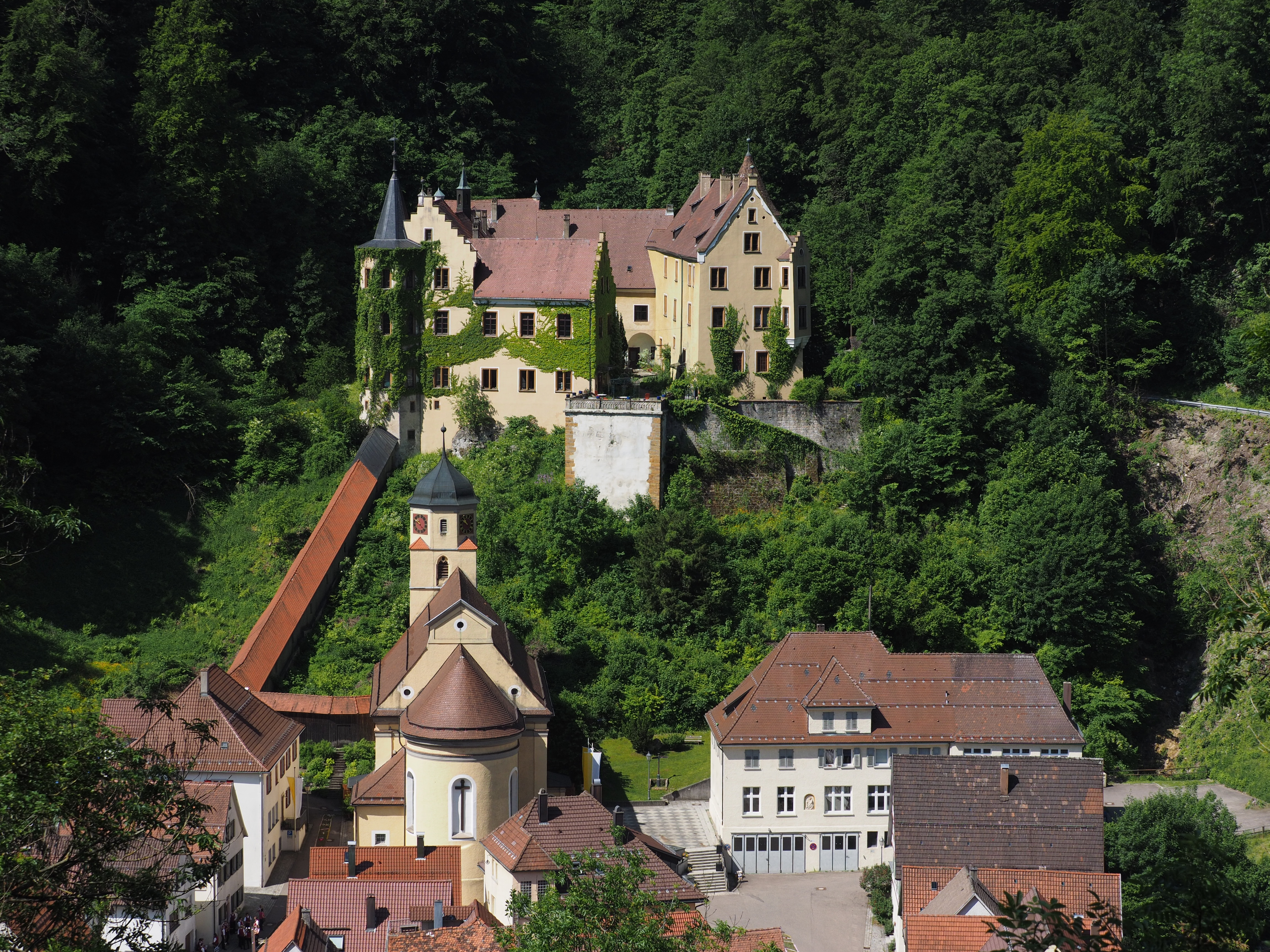 Schloss Weißenstein (Weißenstein castle) as seen from "Städtlesblick" viewpoint, Lauterstein, Germany